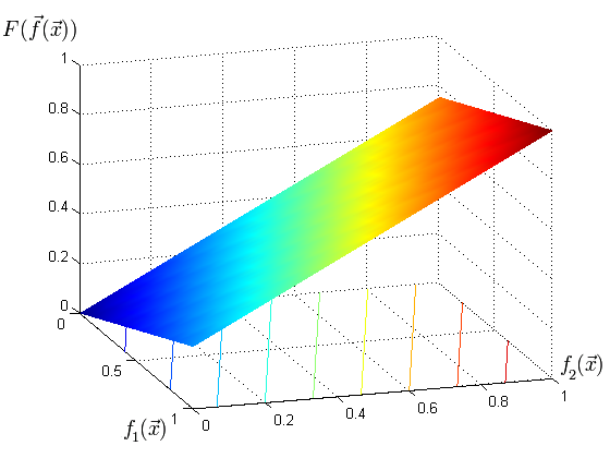 General utility for desicion making. Additive one.